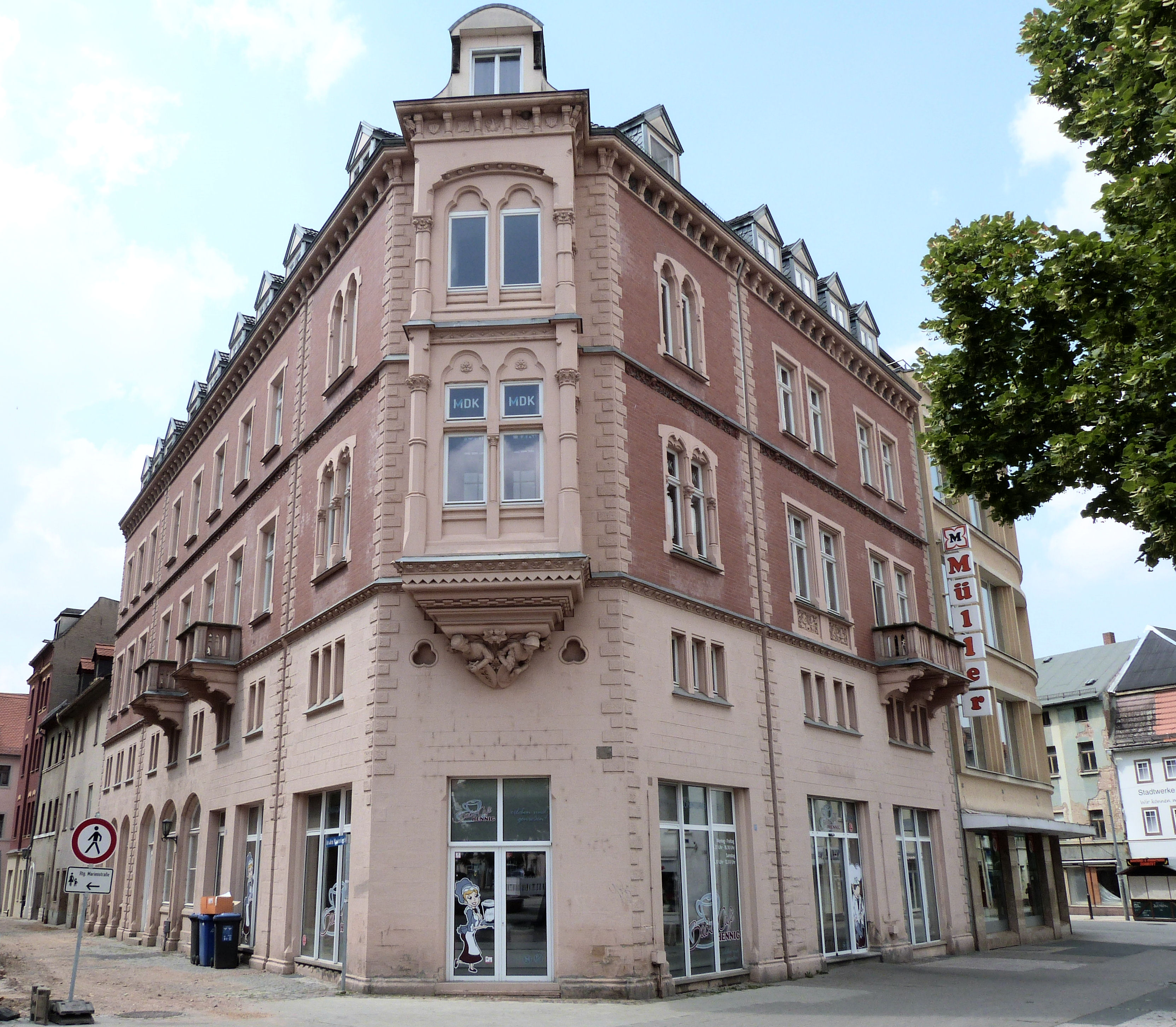 House No. 27, market square in Weissenfels, Saxony-Anhalt